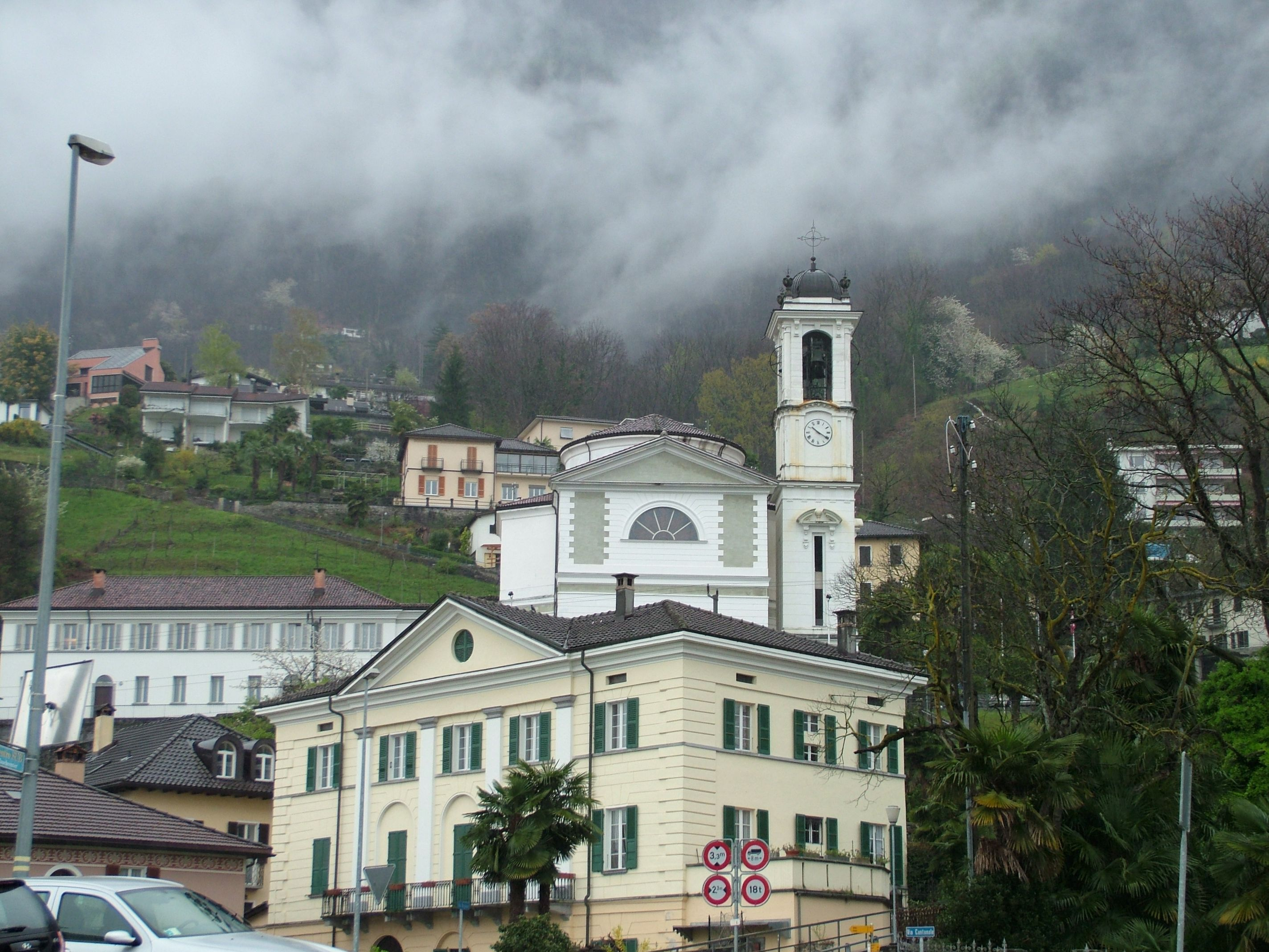 Magadino, Ticino, Switzerland, A view of the village church